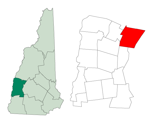 Map of a municipality in Sullivan County, New Hampshire